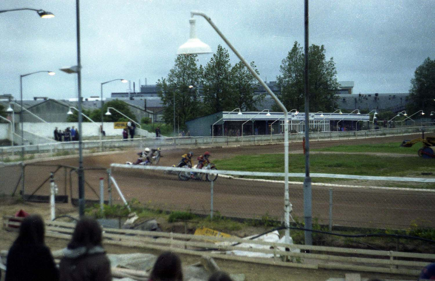 Speedway at Oxford Stadium, Speedway at Oxford Stadium near to Cowley, Oxfordshire, Great Britain.